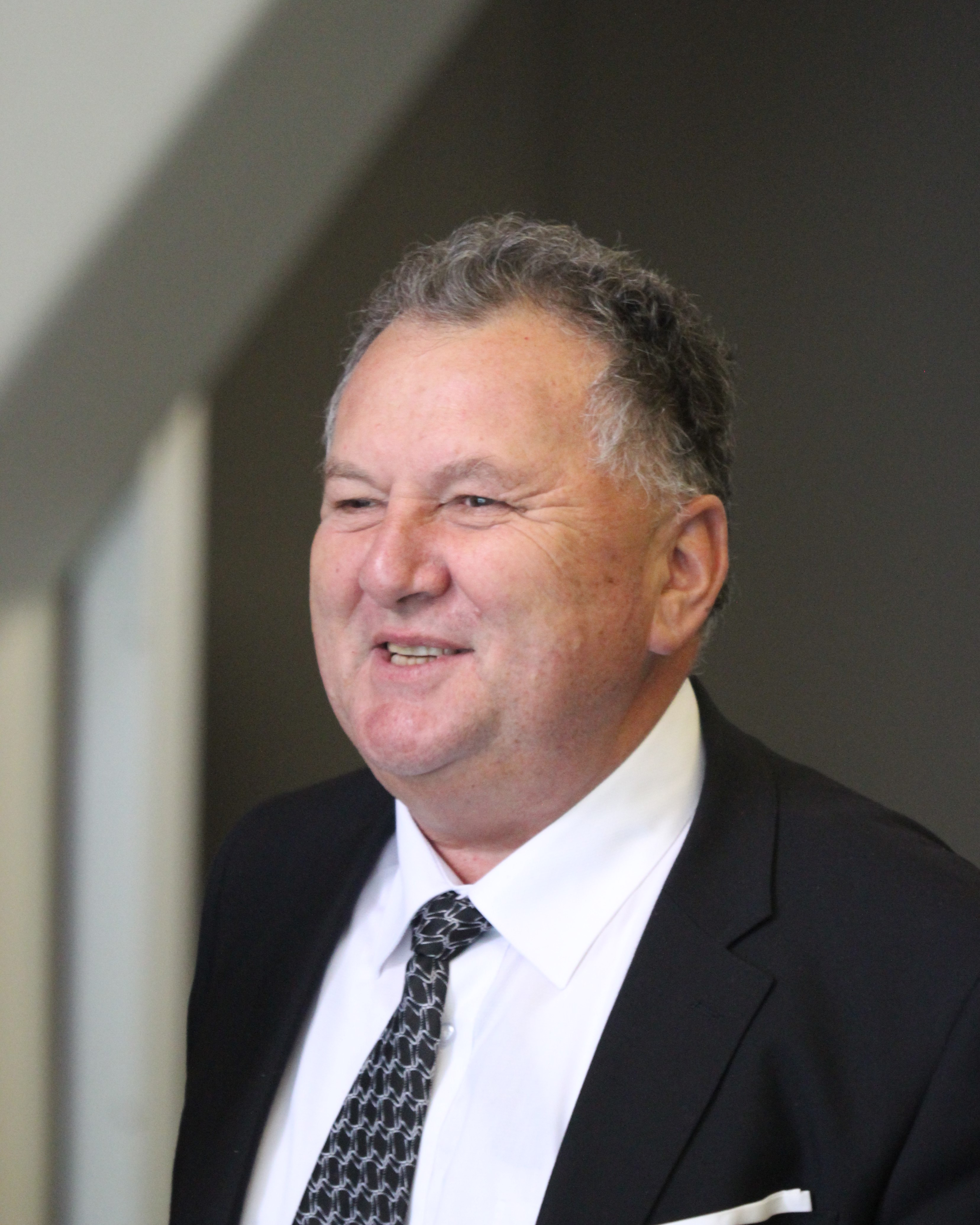 Portrait of Shane Jones